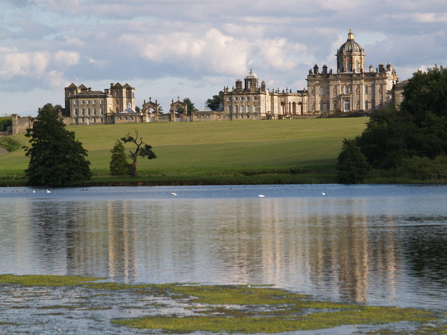 Castle Howard from over the Great Lake